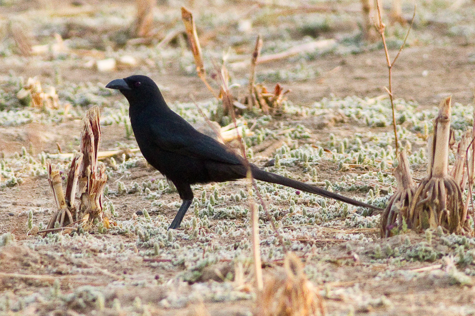 Piapiac (Ptilostomus afer) in Maroua, Kamerun.